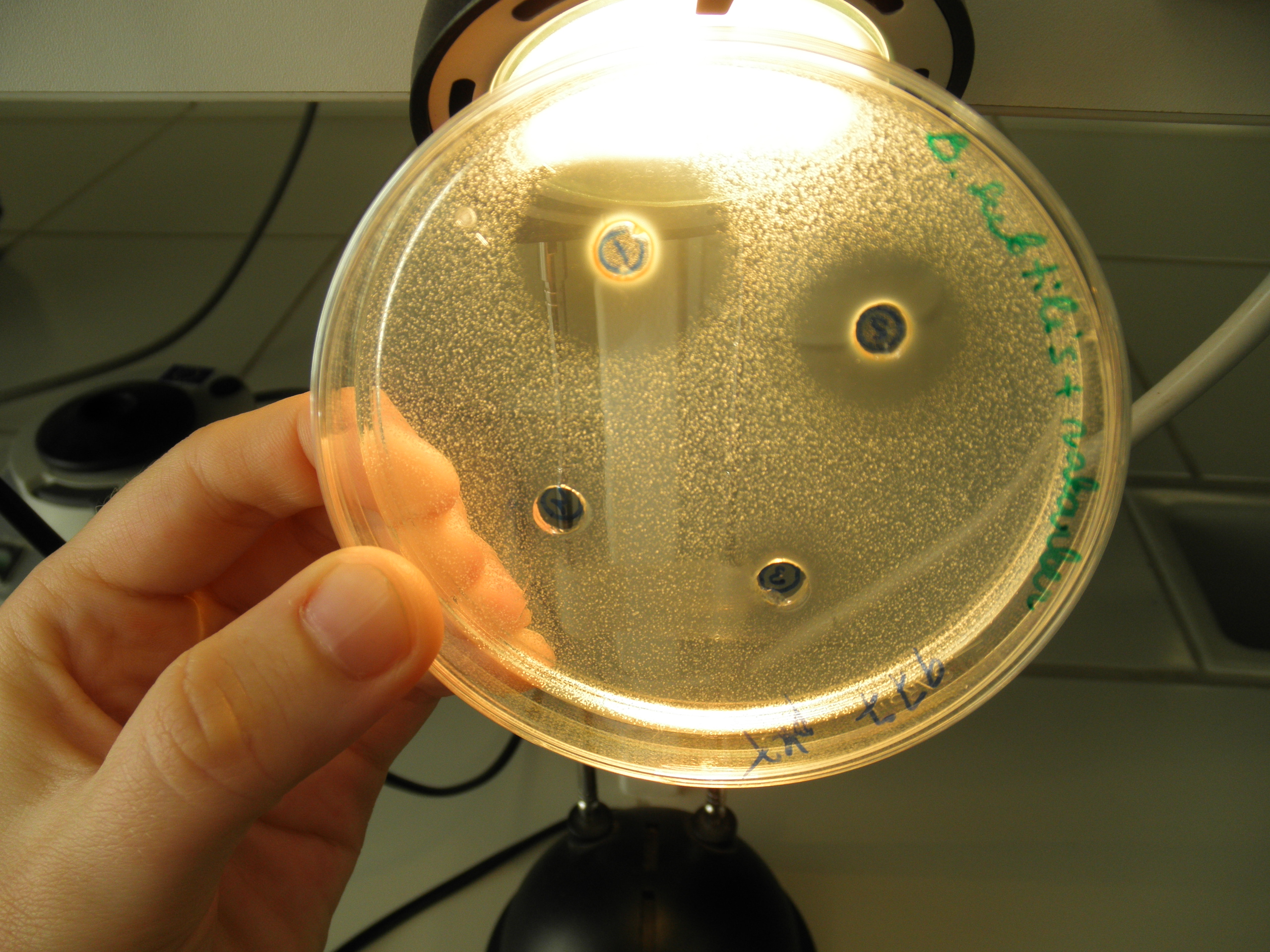 Inhibition of Bacillus subtilis growth by water extracts of roots of Rheum rhaponticum L in decreasing concentrations. Test-agar pH 7, aerobic growth condition at +30 Celsius 24 hours.